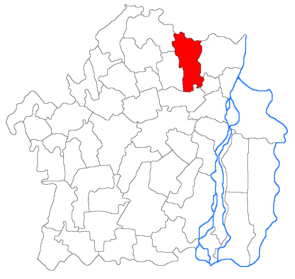 Limits of the commune of Siliştea in Brăila County, Romania